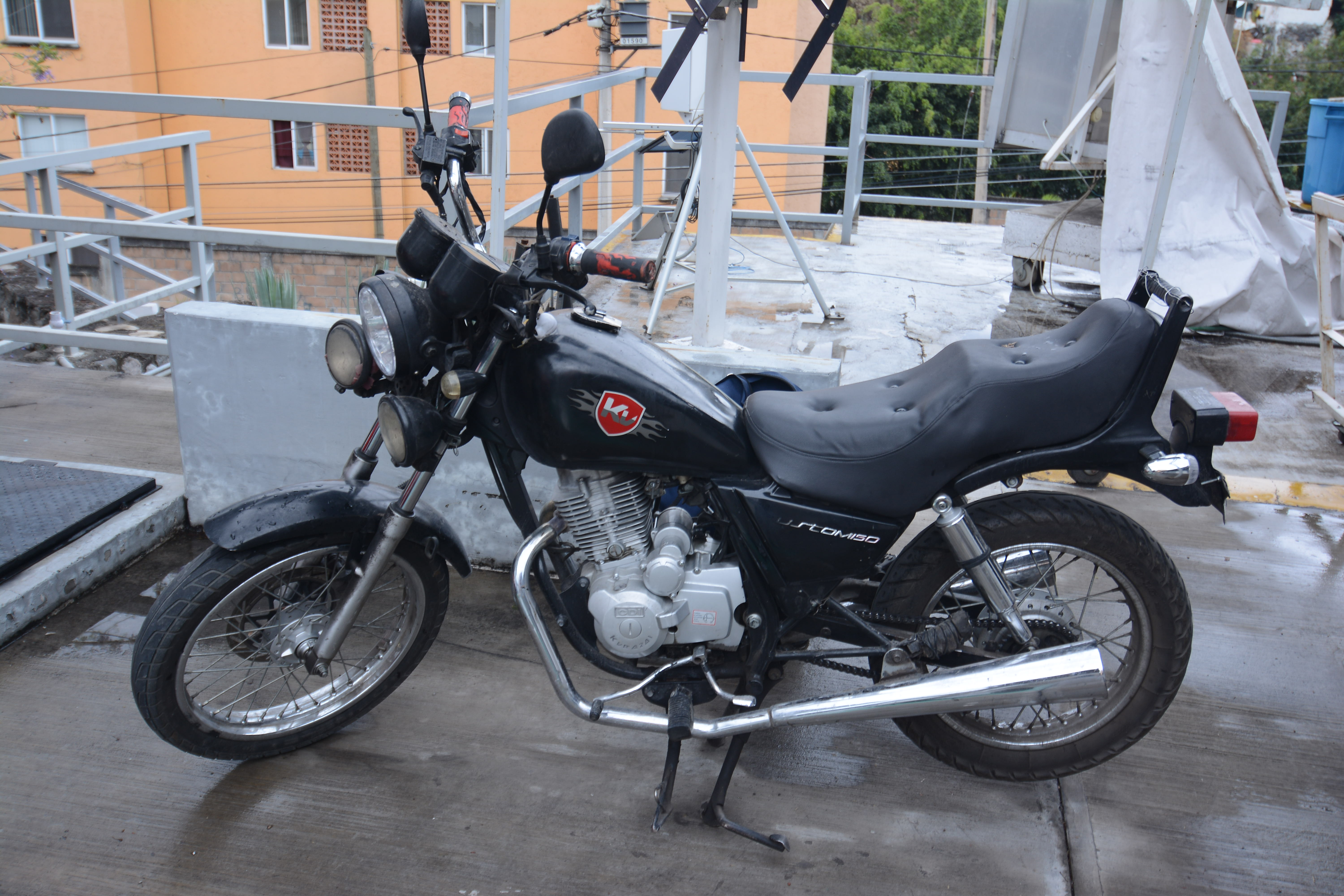 Right side view of a Kurazai 150cc motorcycle